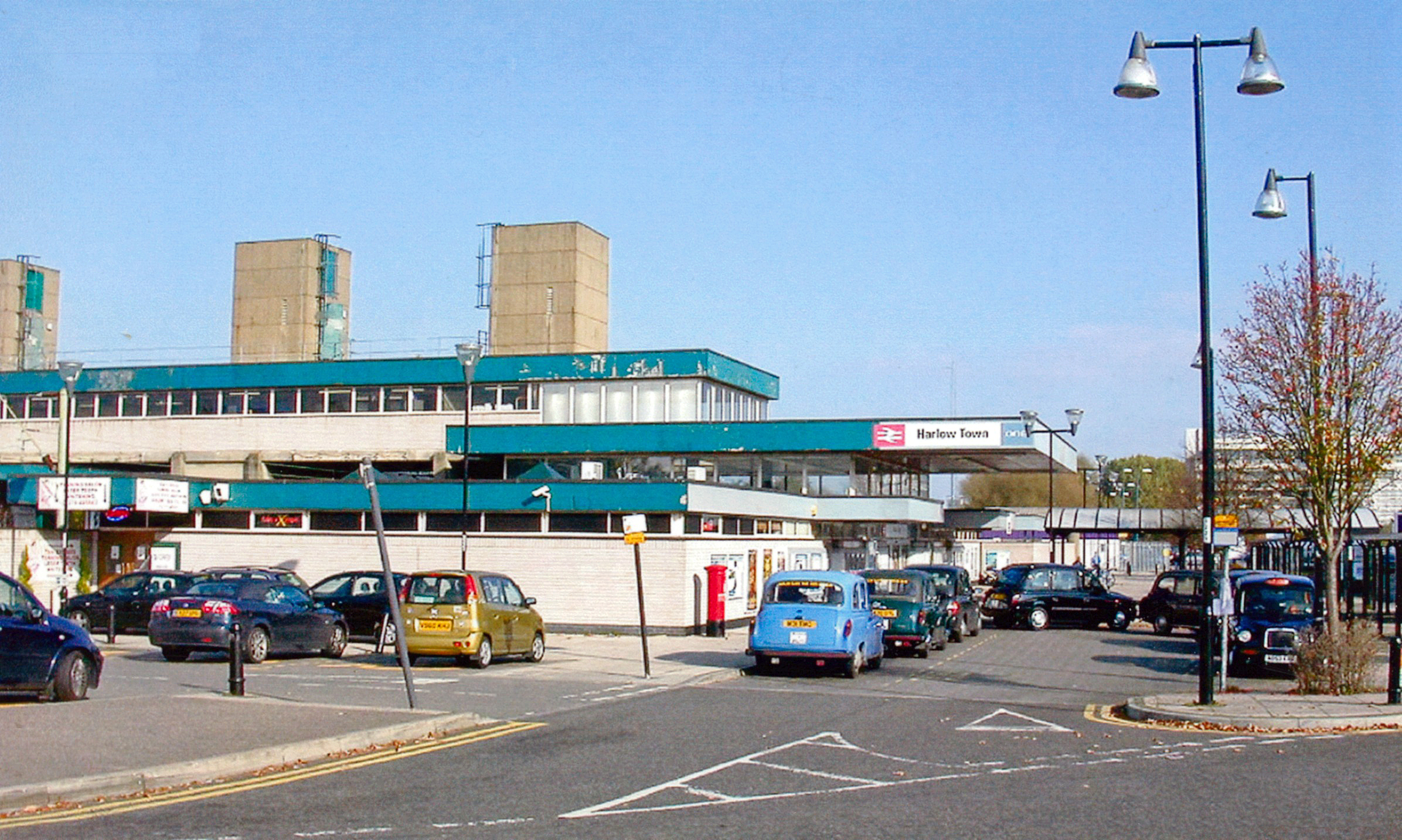 Harlow Town Station, entrance. View northward: ex-GER Liverpool Street - Cambridge main line. The station was formerly 'Burnt Mill', but was renamed when rebuilt 13/6/60.